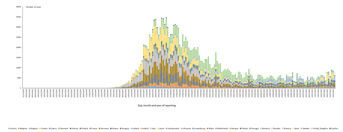 Novel COVID-19 cases in the European Union and the United Kingdom, by day, updated daily.